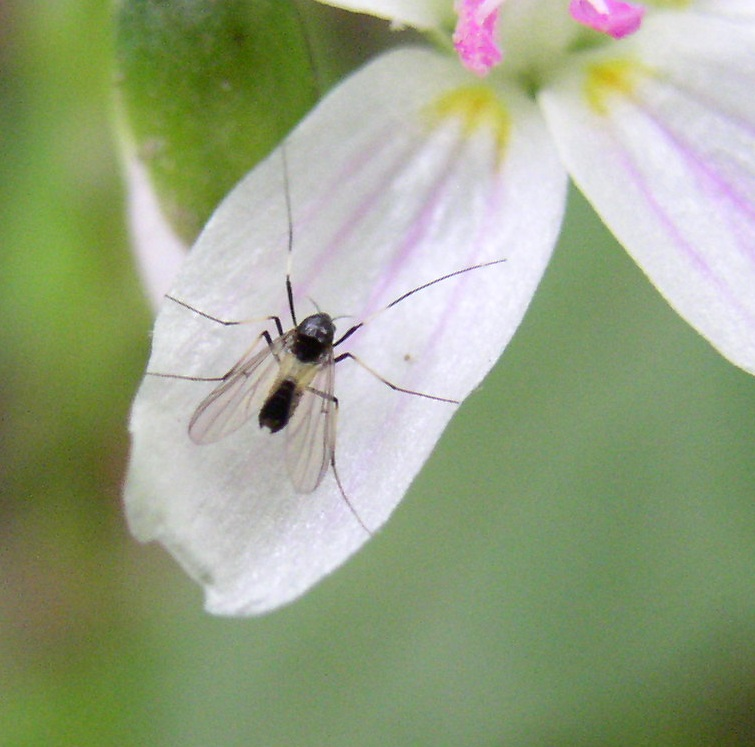 Cricotopus (subgenus Cricotopus) midge on spring beauty, +/- 2 mm. Pennypack Conservation Trust, Montgomery County, Pennsylvania, USA.